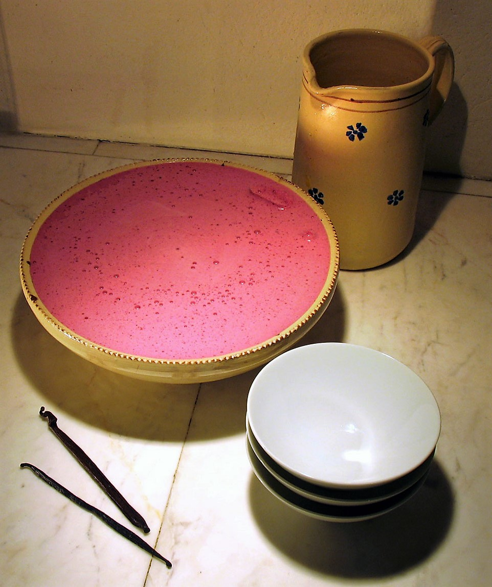 "Mädchenröte, a traditional anglian desert (Anglia is a part of Schleswig-Holstein, Germany). I took the picture by myself in august 23 in 2006. Mädchenröte should be served with fresh prepared vanilla-sauce. Nicolaus Schmidt license